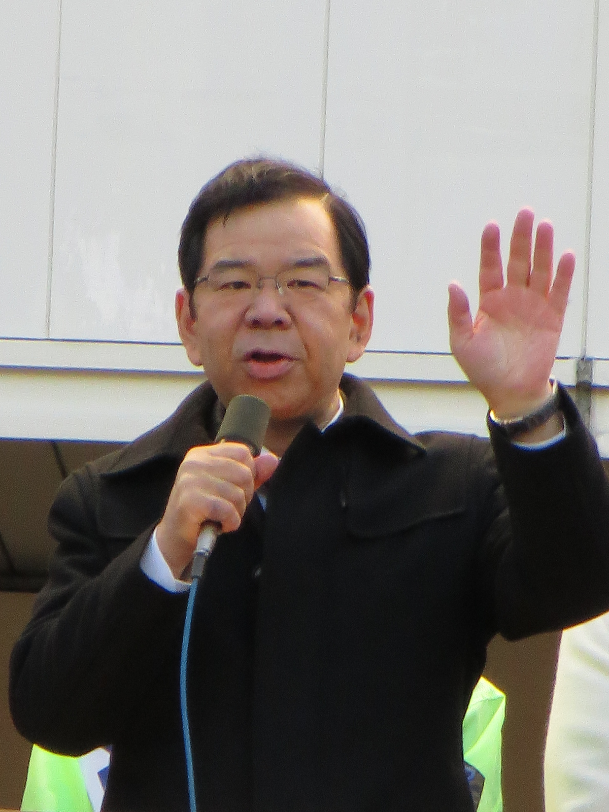 Japanese general election, 2012. Kazuo Shii (President of Japanese Communist Party), in Sannomiya, Kobe.